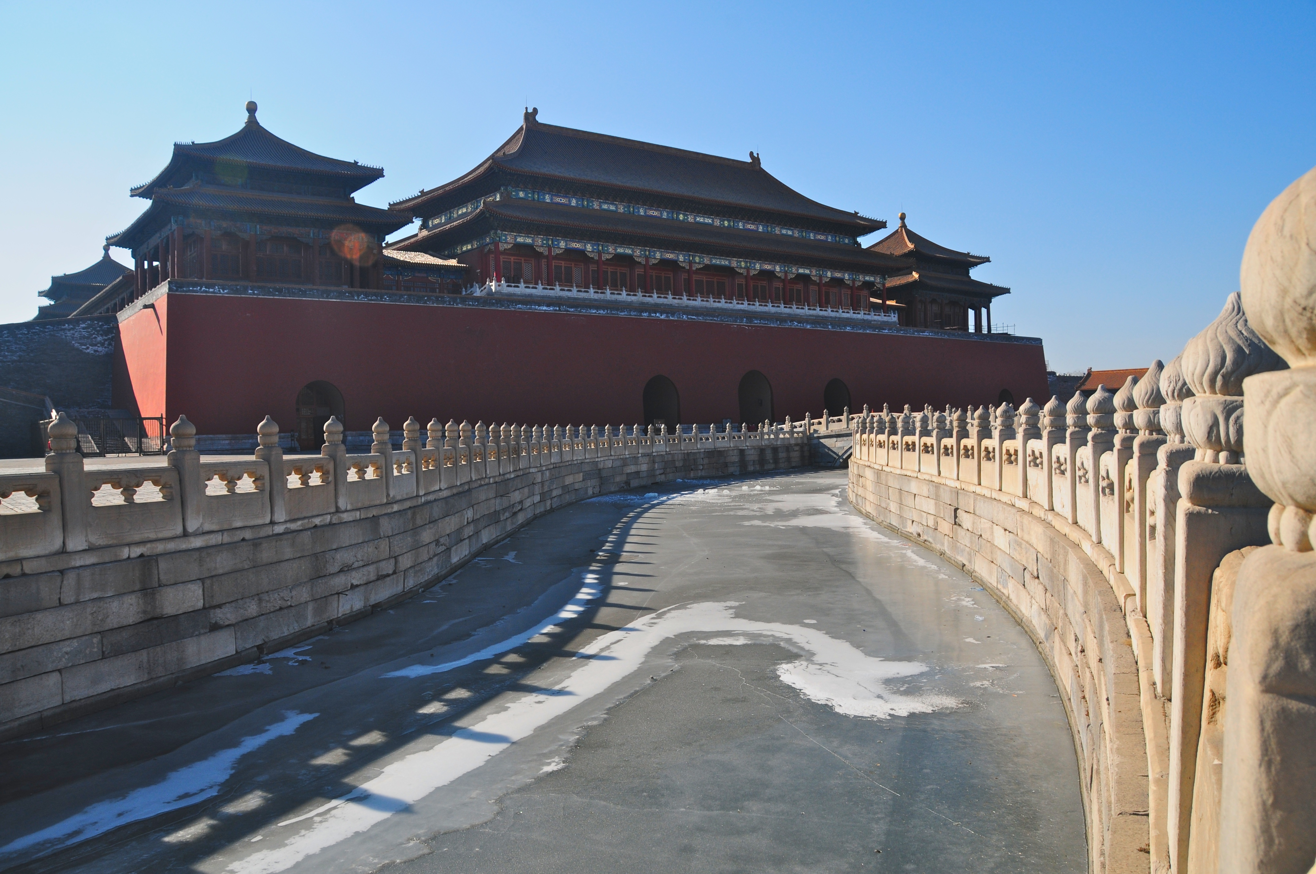 The Forbidden City in Beijing